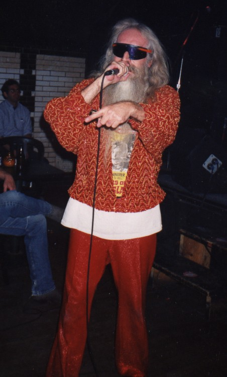 Johnny Legend performing at the Beat Kitchen in Chicago